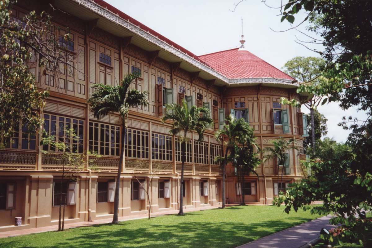 Vimanmek Palace (พระที่นั่งวิมานเมฆ), Bangkok, Thailand. The largest building created completely from teak wood. Built 1900-01 is was the residence of King Chulalongkorn (Rama V) 1901-05. Used as the residence for other members of the royal family it fell in disuse in 1932, and was reconstructed to a museum in 1982. View from the south, near the "stage". Photo by User:Ahoerstemeier on April 3 2001.